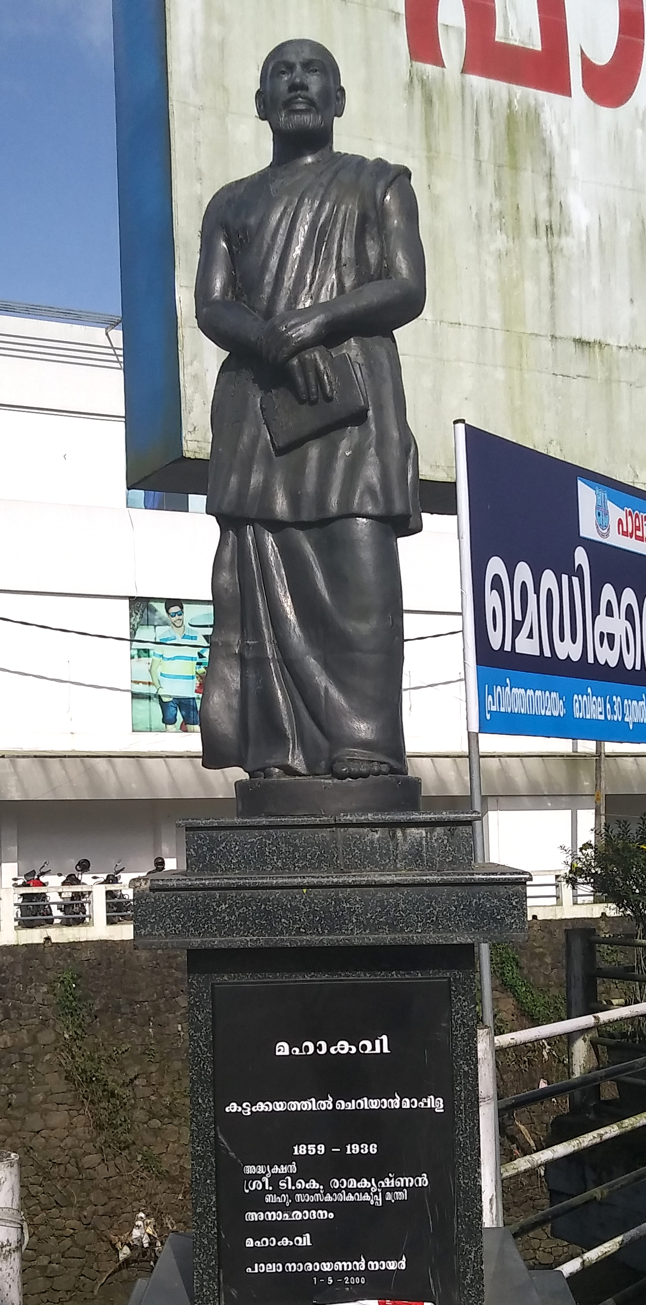 Kattakayam Cherian Mappilla statue in front of Pala municipal office. Plaque reads: Mahakavi Kattakkayathil Cherian Mappila 1859-1936 In a meeting chaired by Sri. T.K. Ramakrishnan (Minister of Cultural department) Uncovered by Mahakavi Pala Narayanan Nair 1-5-2000